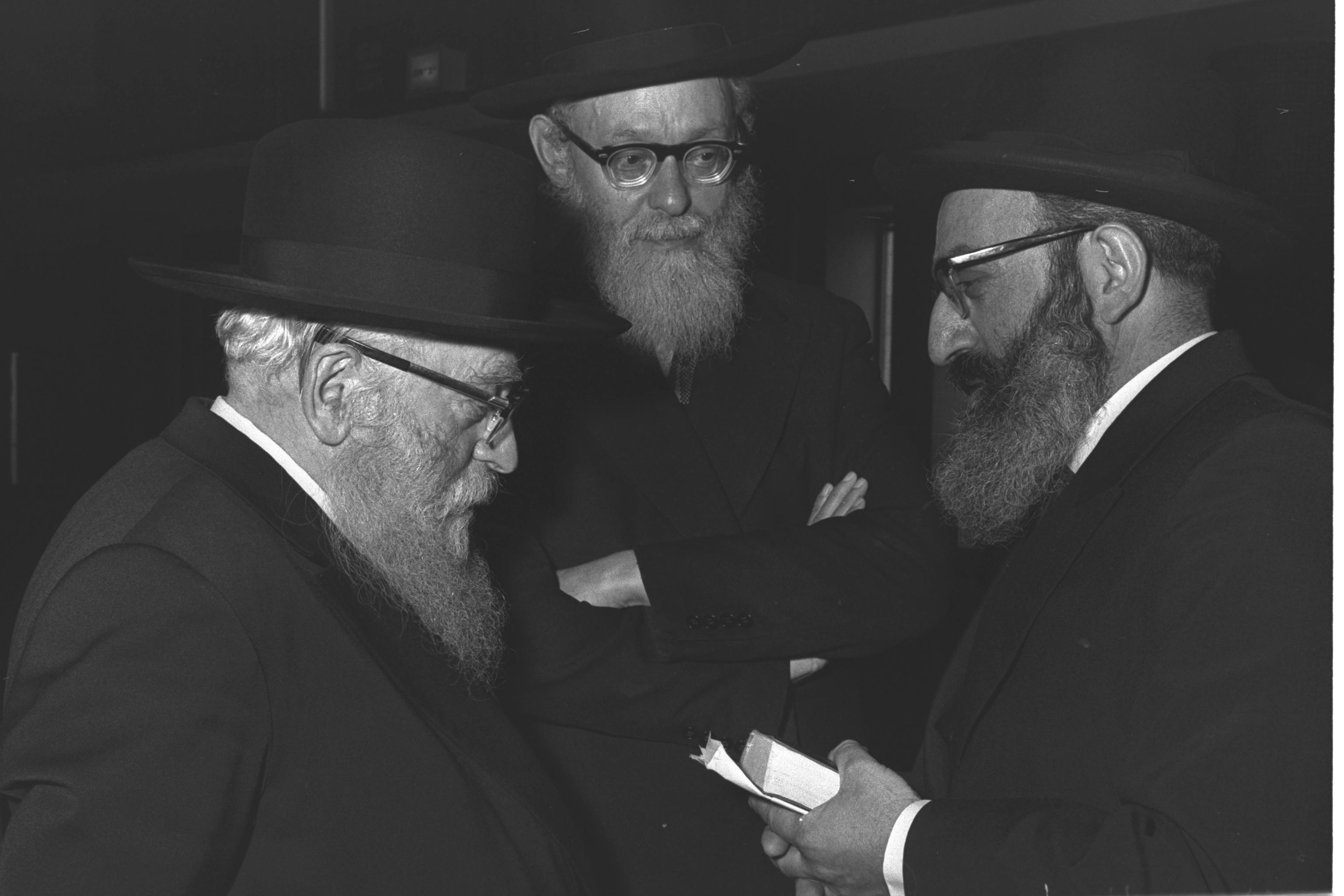 CHIEF RABBI YEHUDA UNTERMAN (L) SPEAKING WITH RABBI SHLOMO GOREN (R) & RABBI ELYASHIV DURING ELECTIONS FOR THE CHIEF RABBINATE, HELD AT "HEICHAL SHLOMO" IN JERUSALEM.